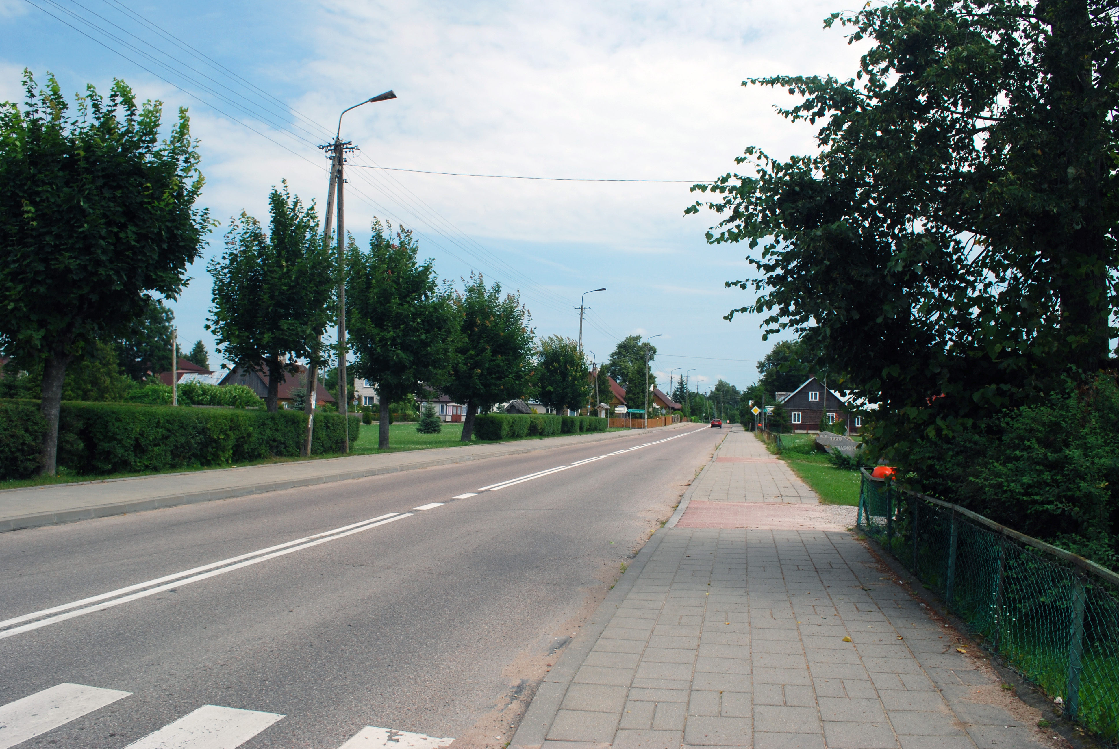 This photo from Podlaskie Voievodeship was taken during Polish Wikiexpedition 2009 set up by Wikimedia Polska Association. The making of this document was supported by Wikimedia Polska. ul. 1 maja w Krasnopolu.